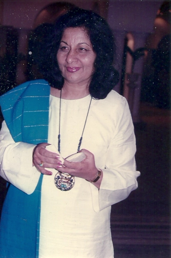 Scanned photograph of my grandmother, Bhanu Athaiya.